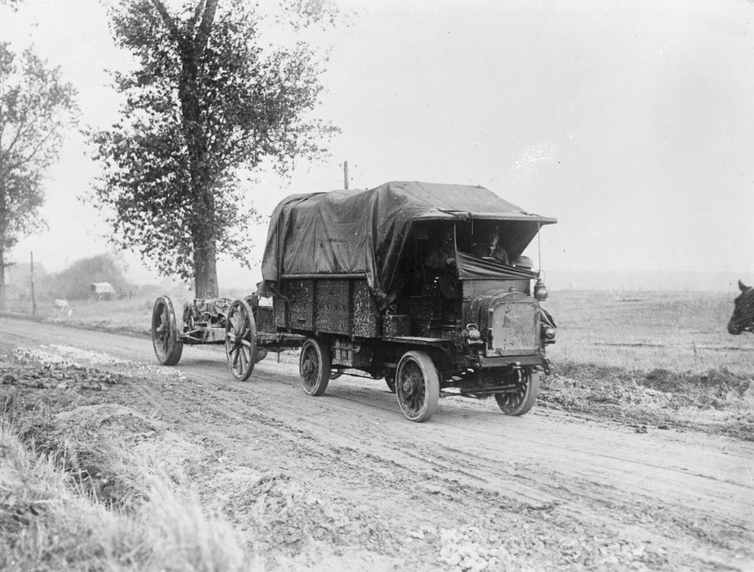 An FWD lorry hauling a 6-inch 26cwt howitzer.